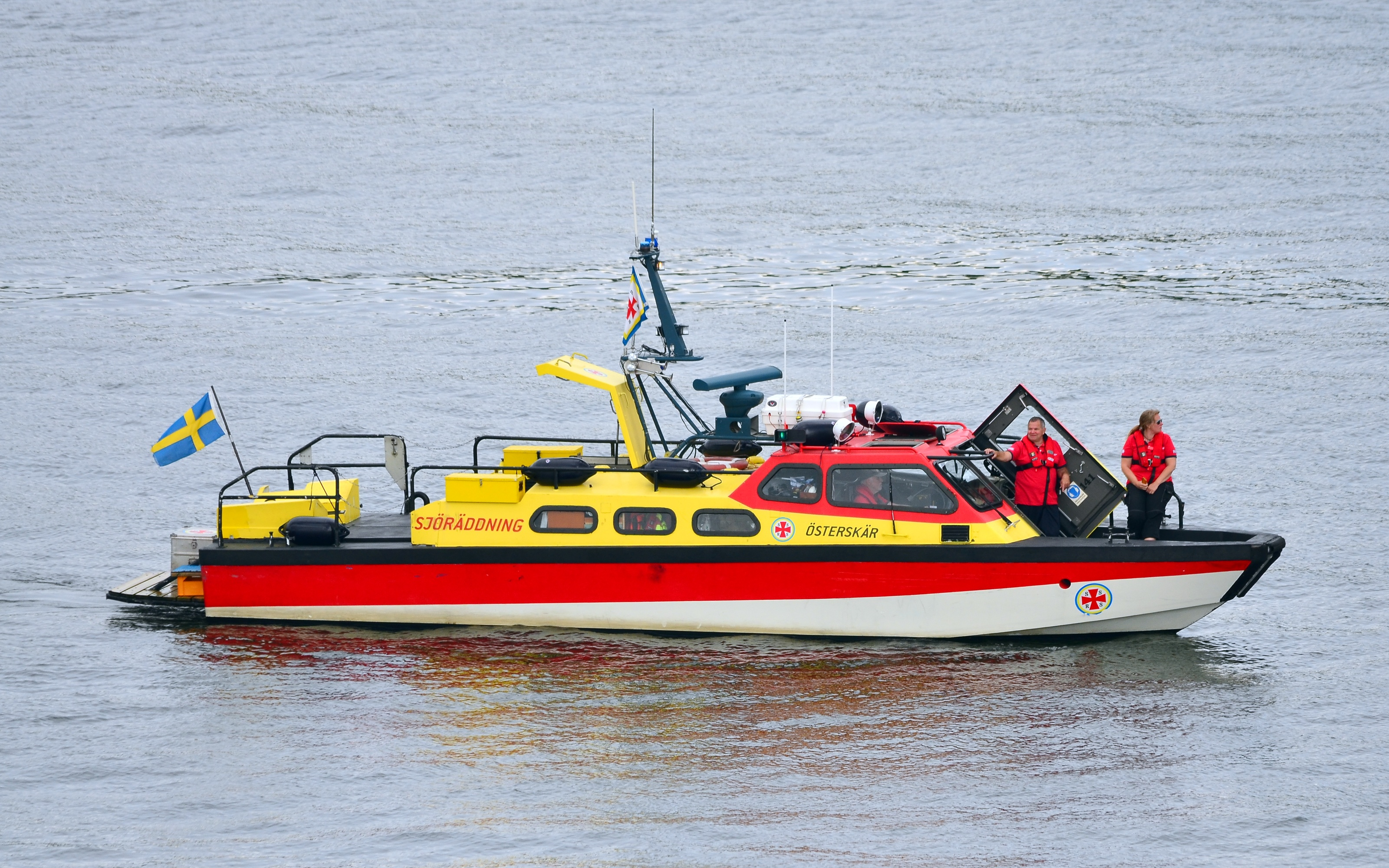 Swedish Sea Rescue Society's rescue boat Österskär.